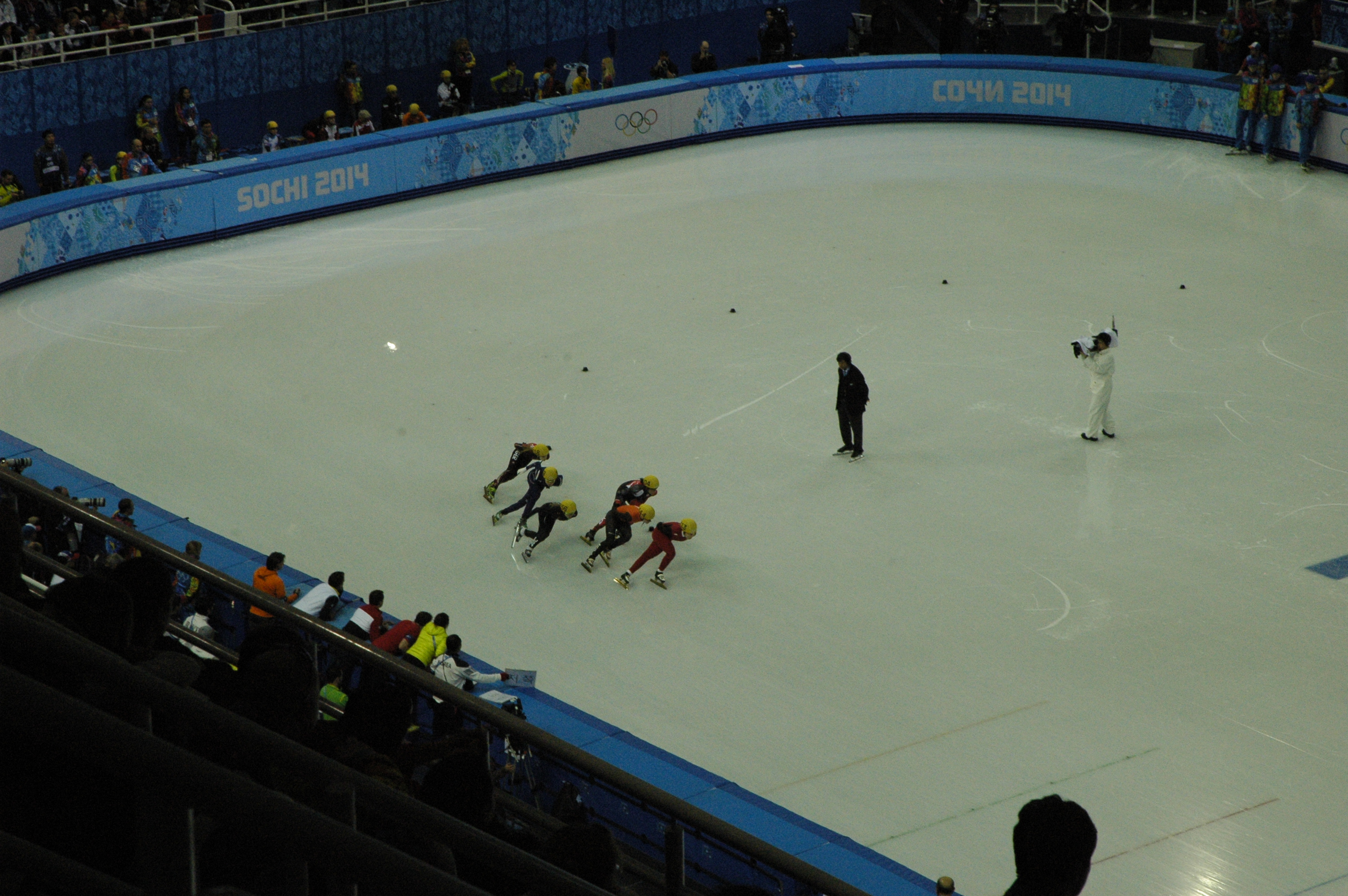 Semifinal 1 1 1 Zhou Yang China 2:18.825 QA 2 1 Shim Suk-Hee South Korea 2:18.966 QA 3 1 Marie-Ève Drolet Canada 2:19.516 QB 4 1 Jessica Smith United States 2:20.259 QB 5 1 Yara van Kerkhof Netherlands 2:20.291 6 1 Anna Seidel Germany 2:20.405